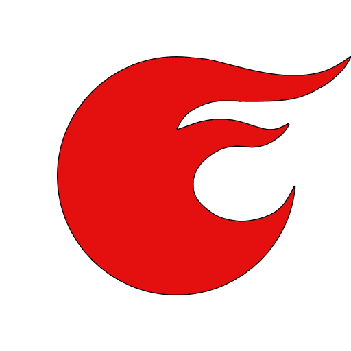 logo of extatus